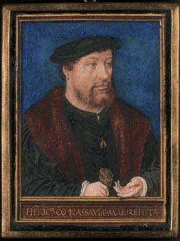 A near-contemporary painting of count Henry III of Nassau-Breda (1483-1538), most likely by Bernard van Orley.